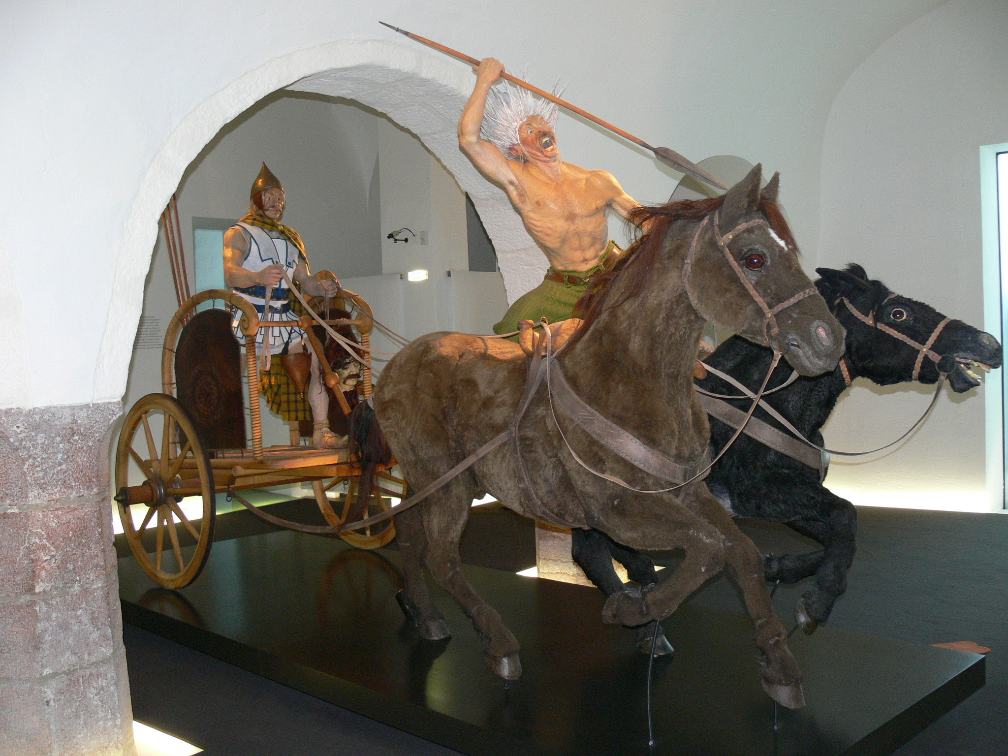 Celtic museum in Hallein ( Salzburg ). Reconstruction of a Celtic chariot.